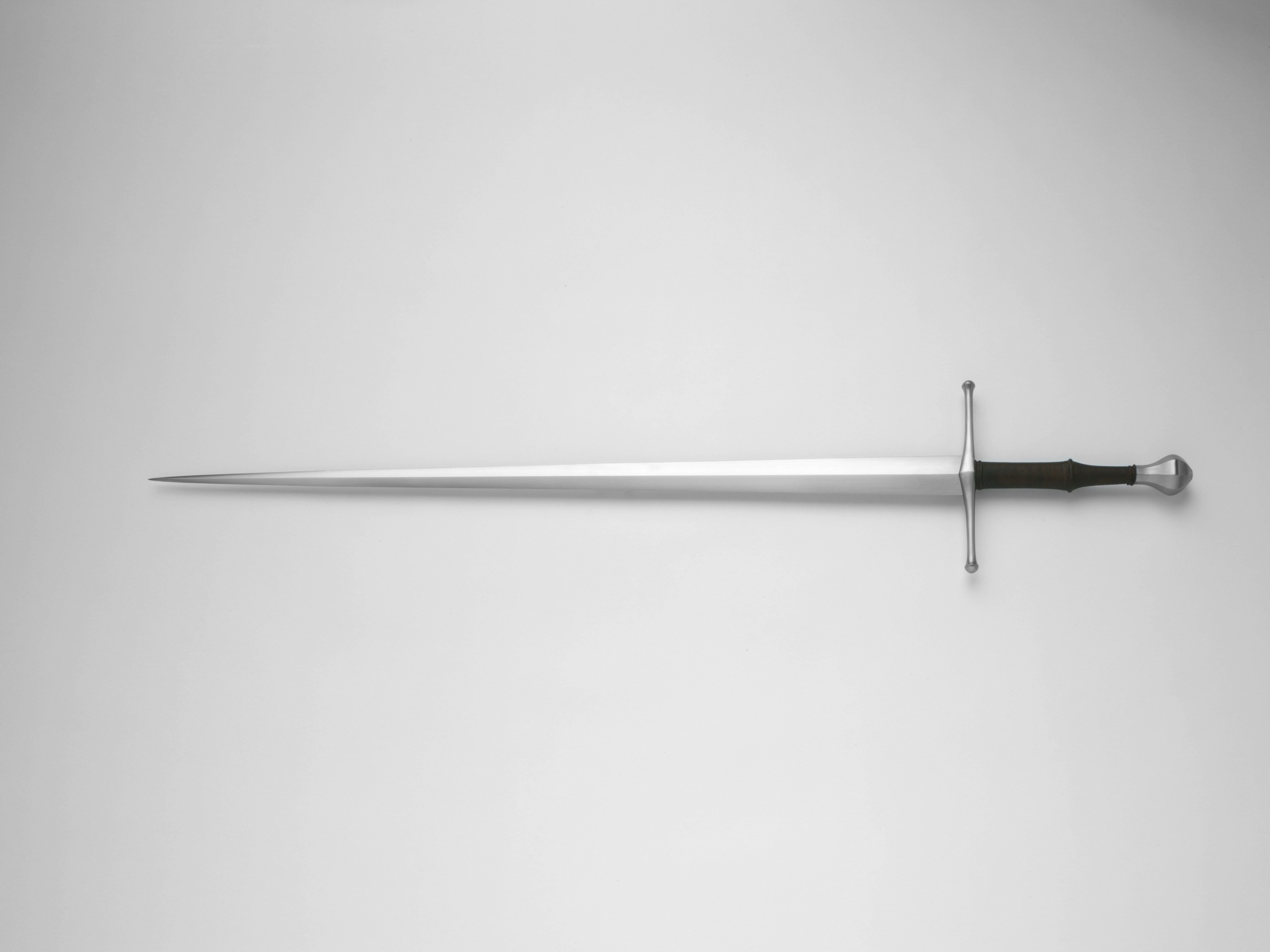 The Talhoffer Limited Edition Medieval War Sword